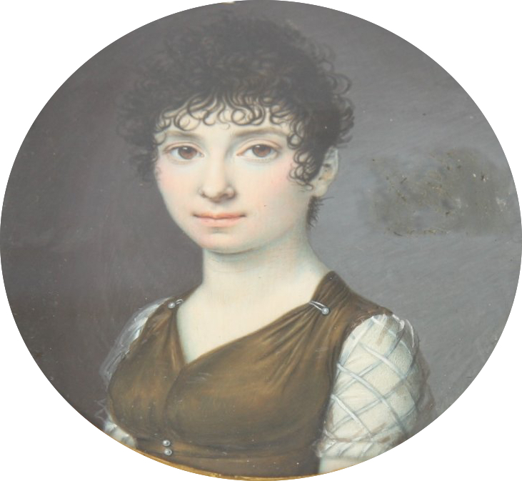 Baronne de Biquilley, née Caroline de Seroux